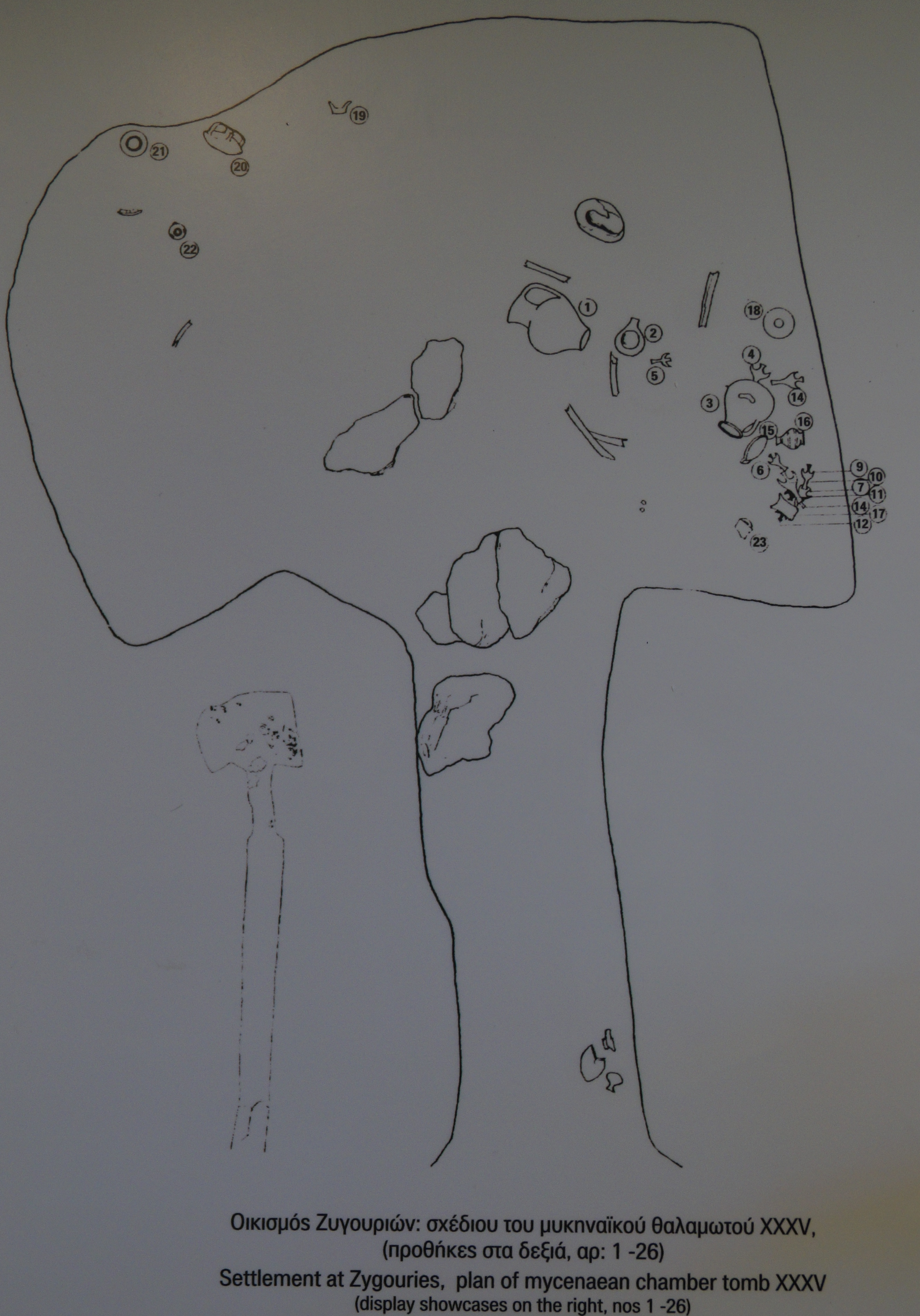 Archaeological Museum of Corinth, Corinthia, Greece: Plan of the chamber tomb XXXV of Zygouries near Agios Vasilios.